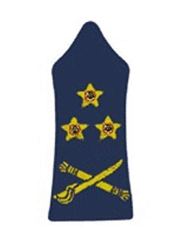 Lebanese Army's Insignia of General